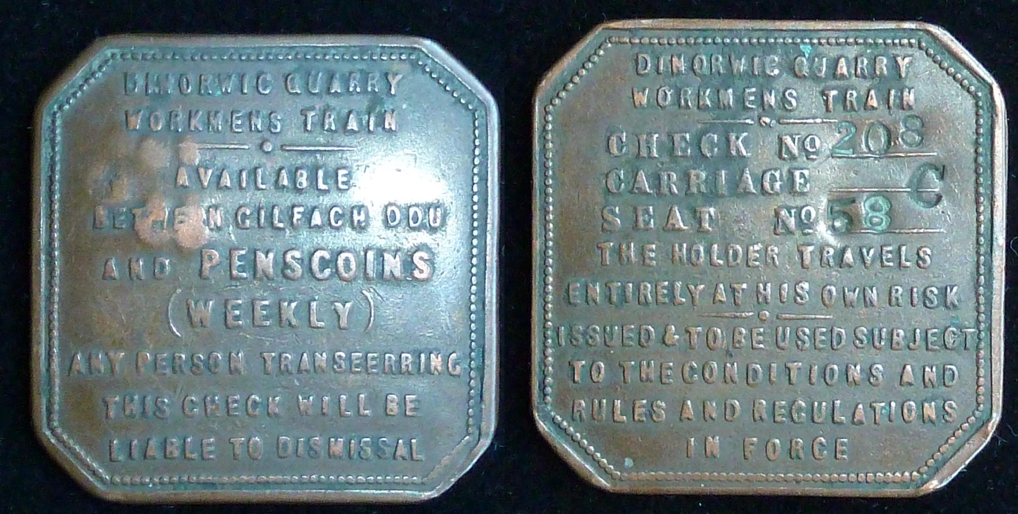 Padarn Railway workman's token